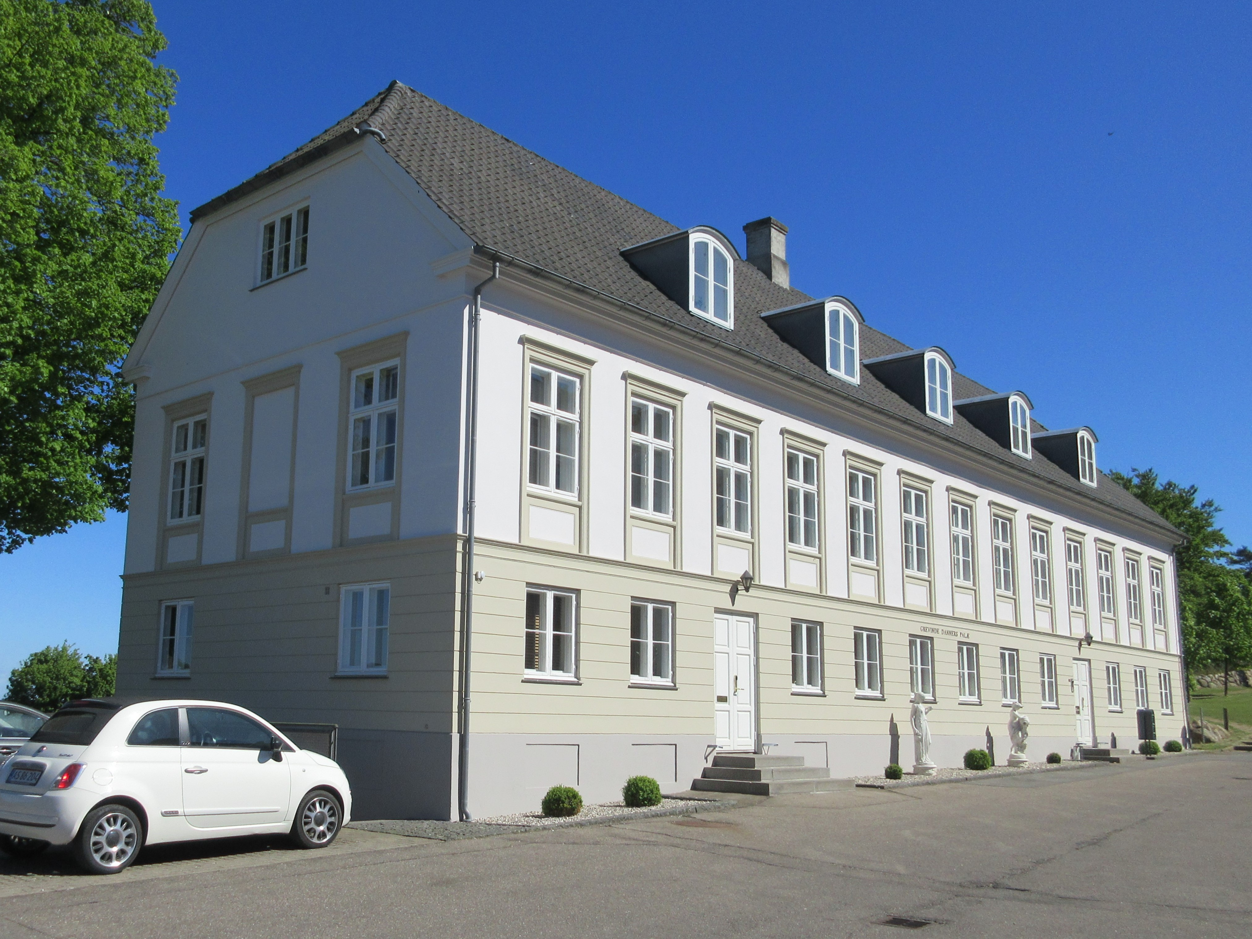 Grevinde Danners Palæ, now part of kurhotel Skodsborg, in Skodsborg, Denmark